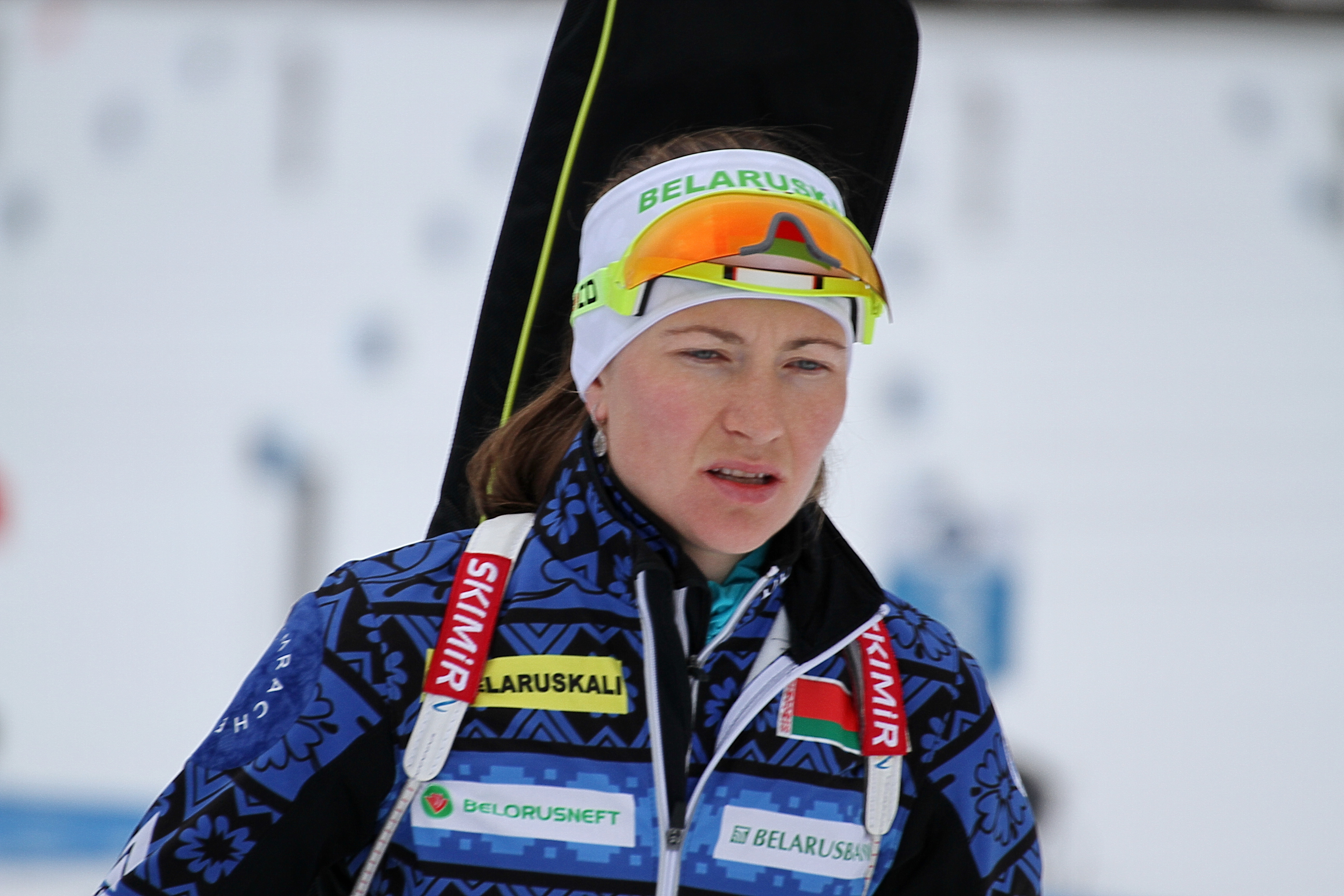 2018 Oberhof Biathlon World Cup - Sprint Women